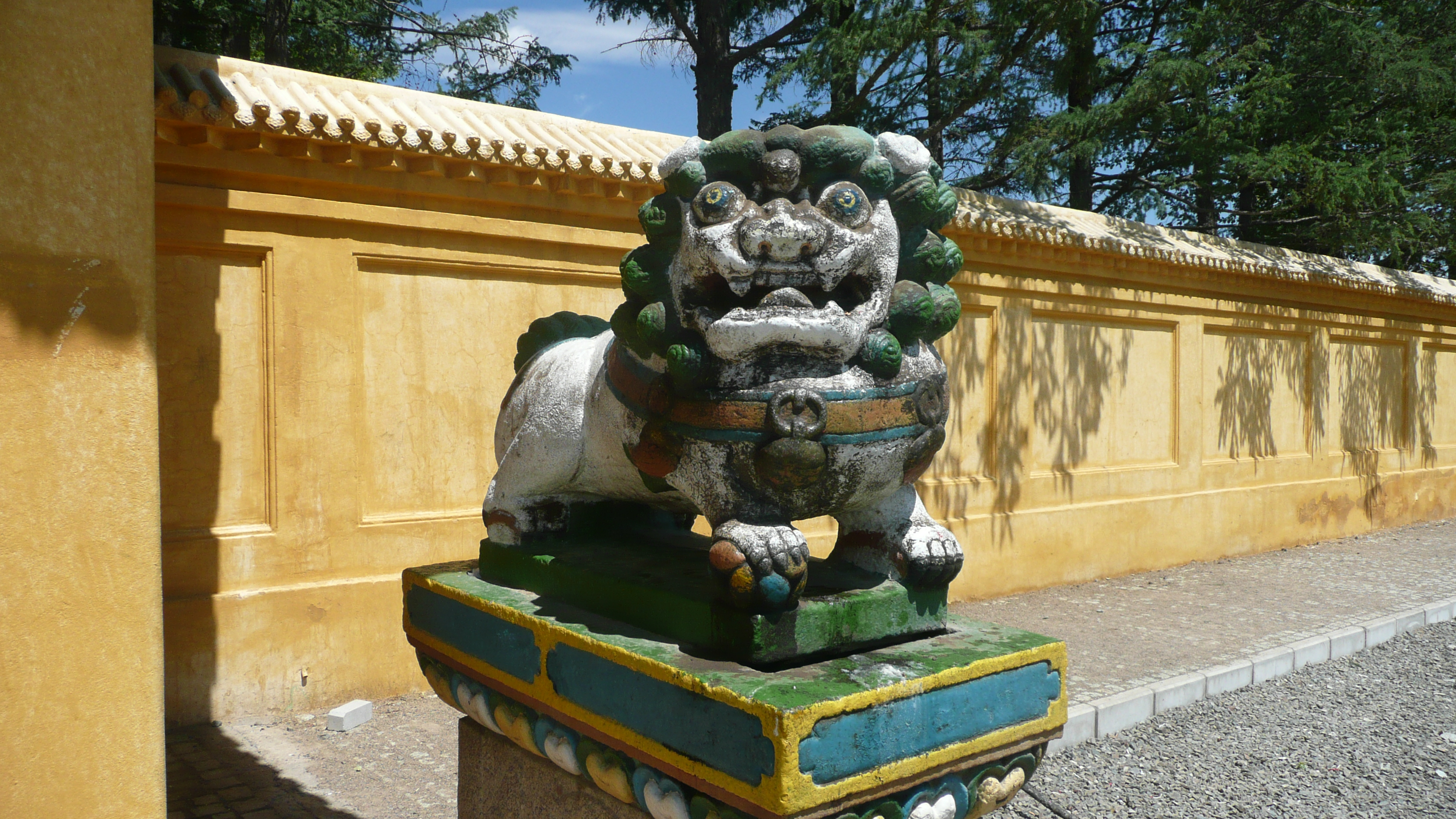 Gandan Monastery in Ulan Bator